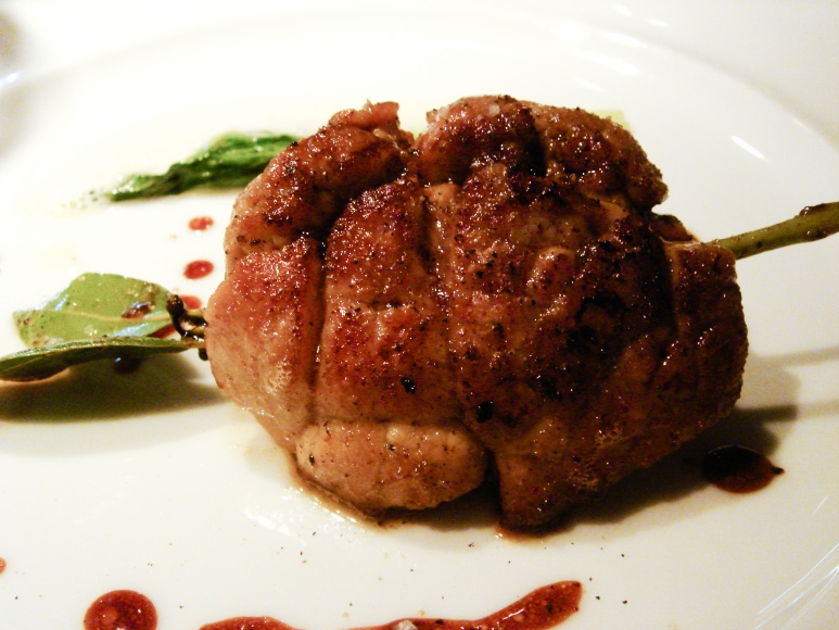 Sweetbreads of veal